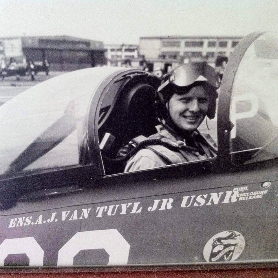 F8F Bearcat assigned to VF-81 Freelancers. You can tell it's an F8F because of the canopy.